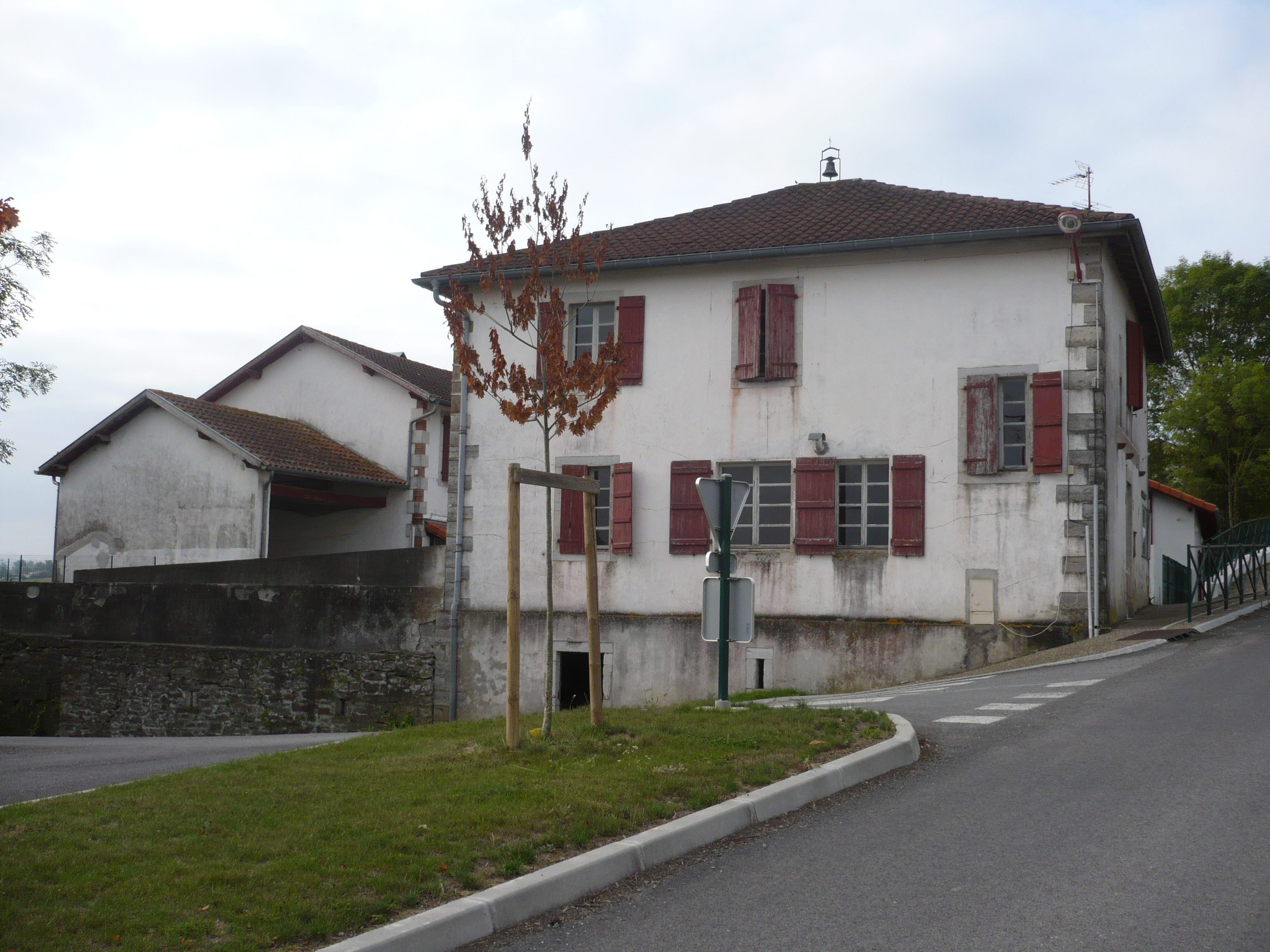 School (left) and council hall of Arboti-Zohota (fr Arbouet-Sussaute), Arboti, Lower Navarre, Basque Country.